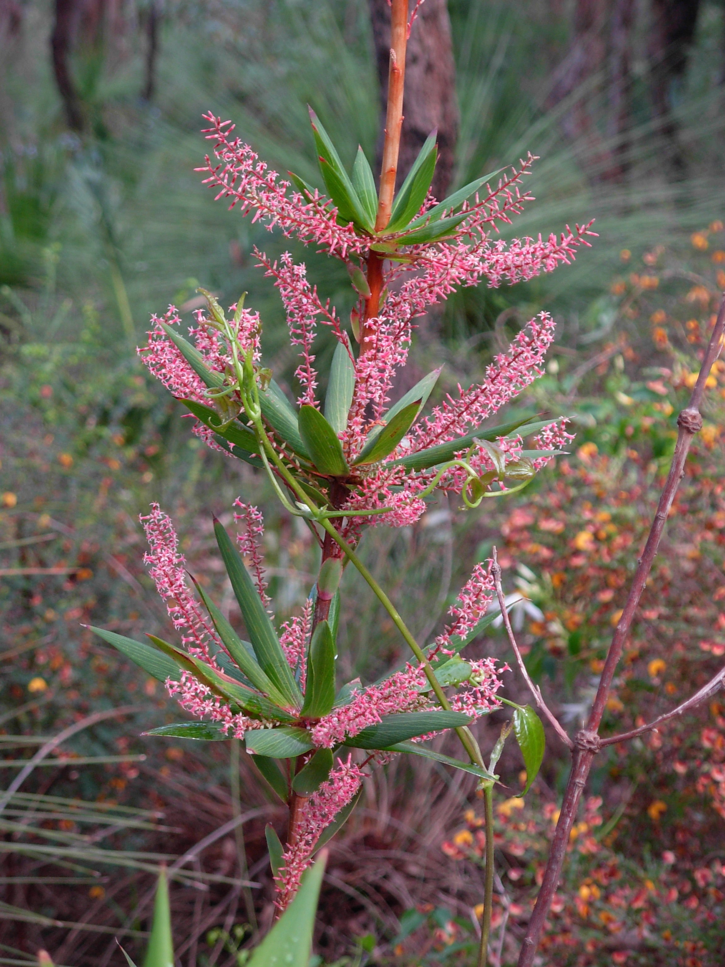 Leucopogon verticillatus Flower found in Beelu National Park, near Mundaring. Western Australia